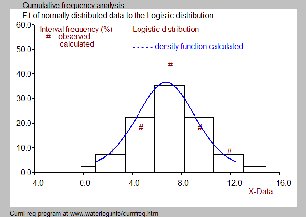 See caption